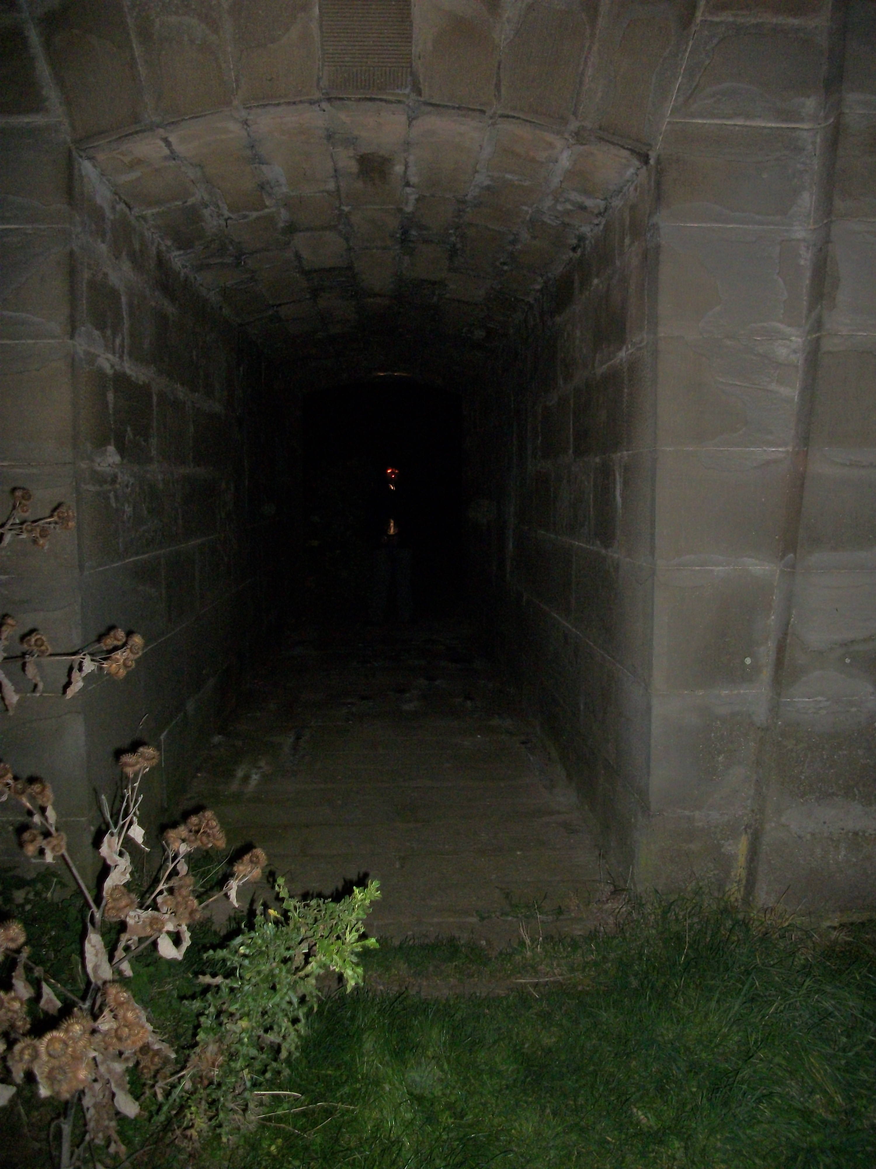 Passage Through Over Bridge aka Telfords Bridge, Maisemore, Gloucestershire